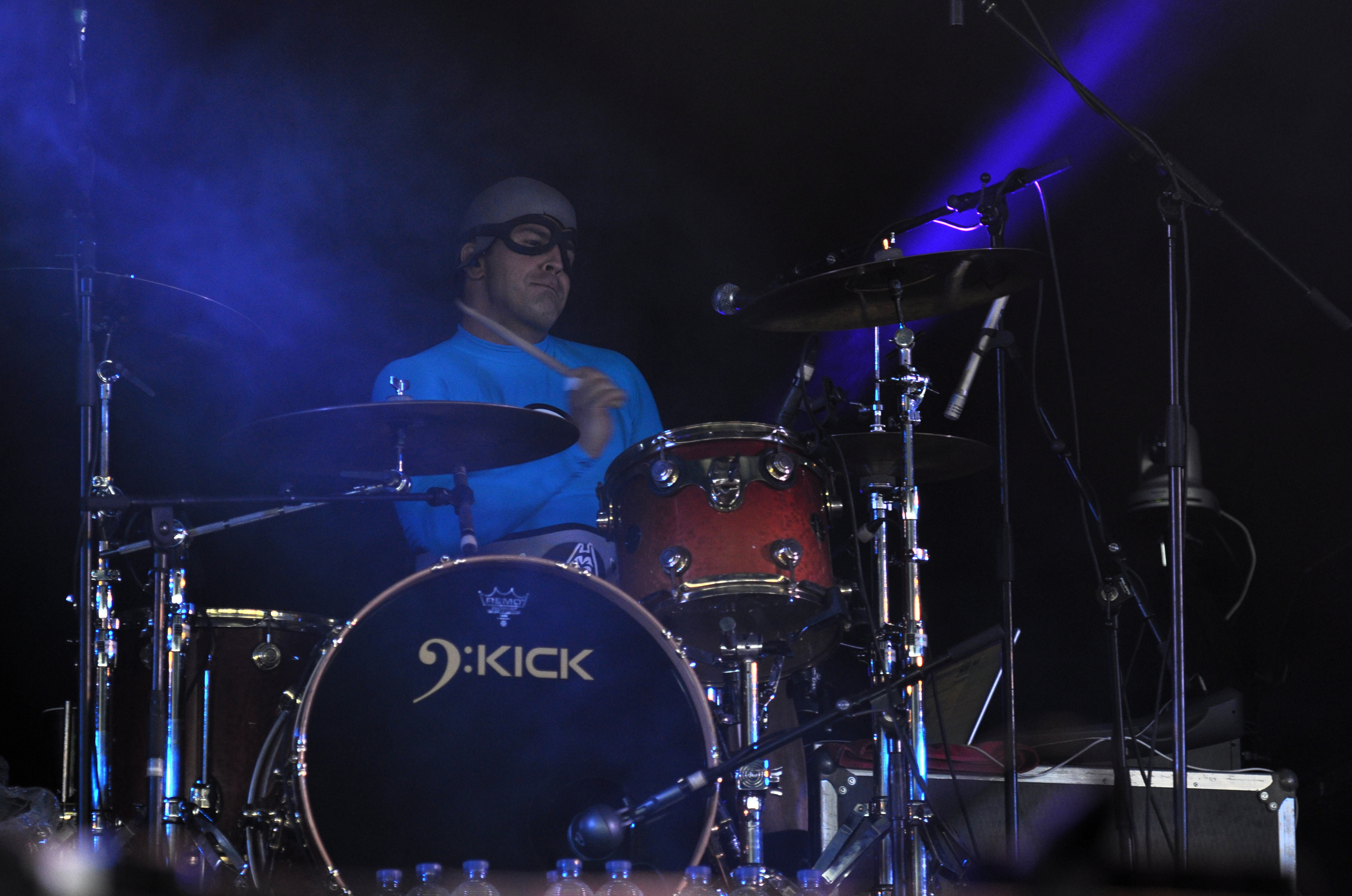 The Aquabats at Groezrock 2013